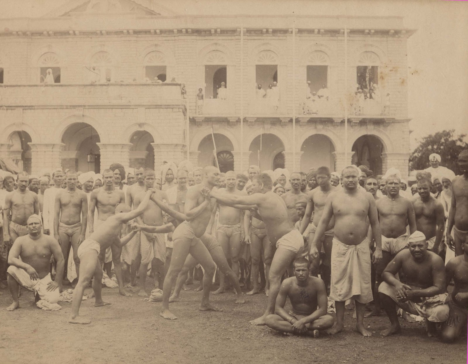 Hyderabadi Peahelwans preparing for kushti (Indian form of wrestling)